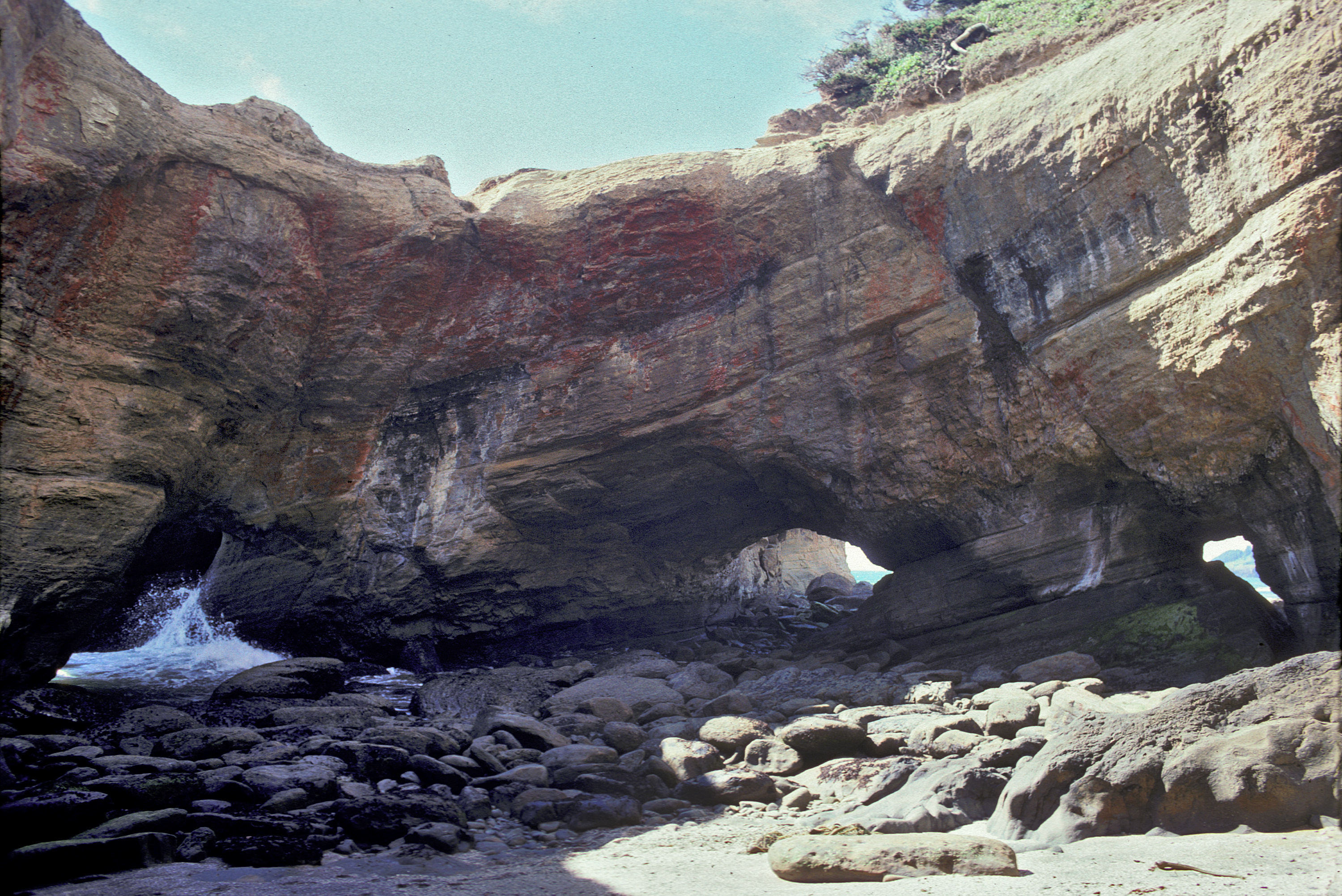 Illustration of how separate sea caves merged to form a larger chamber. Once intersected, the forces acting on the rock trebled and grew the chamber. It later collapsed due to both its width and weight of the ceiling rock, attacked from within and above.